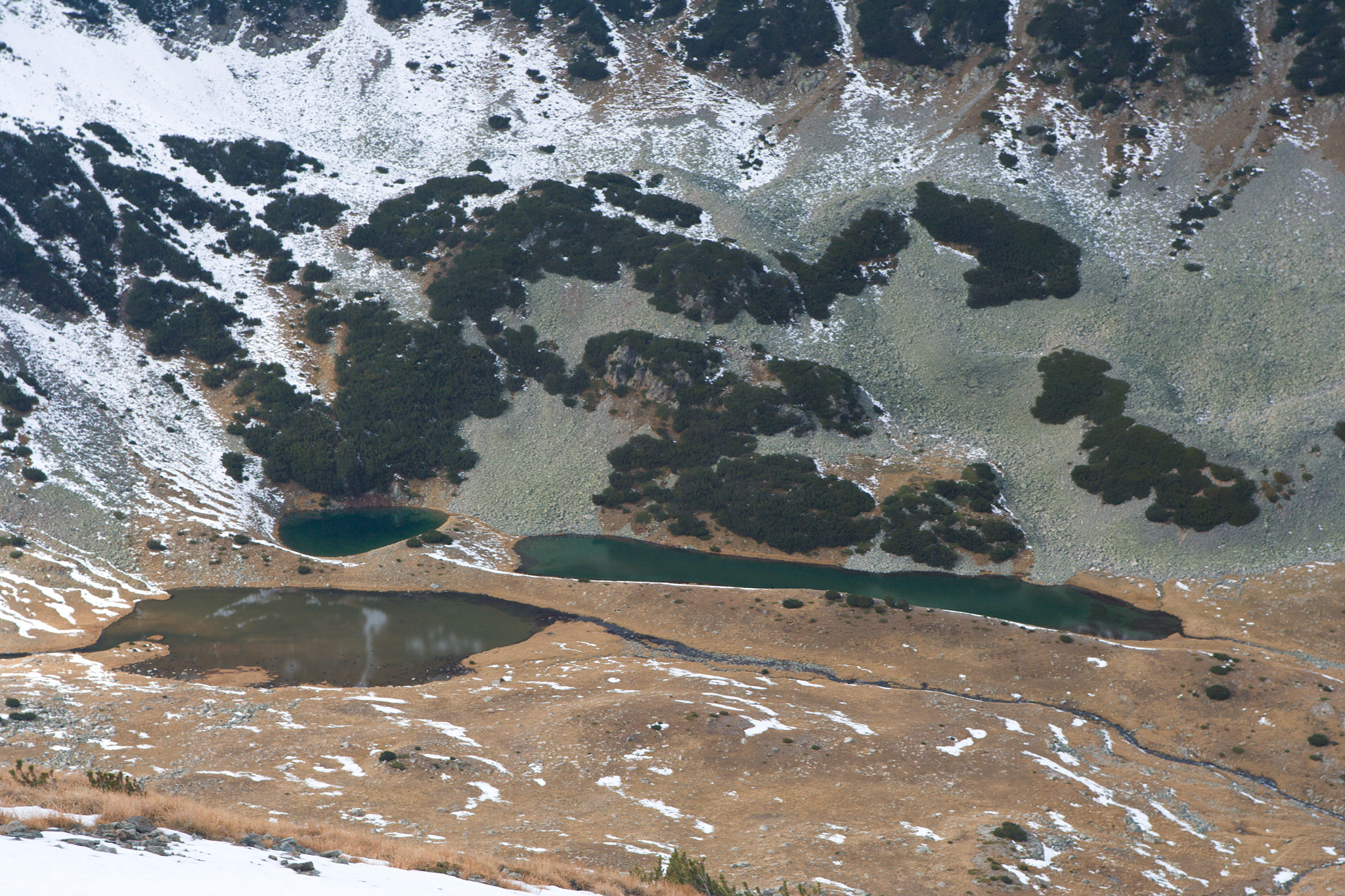 Vlahinski lakes, Pirin mountain, Bulgaria